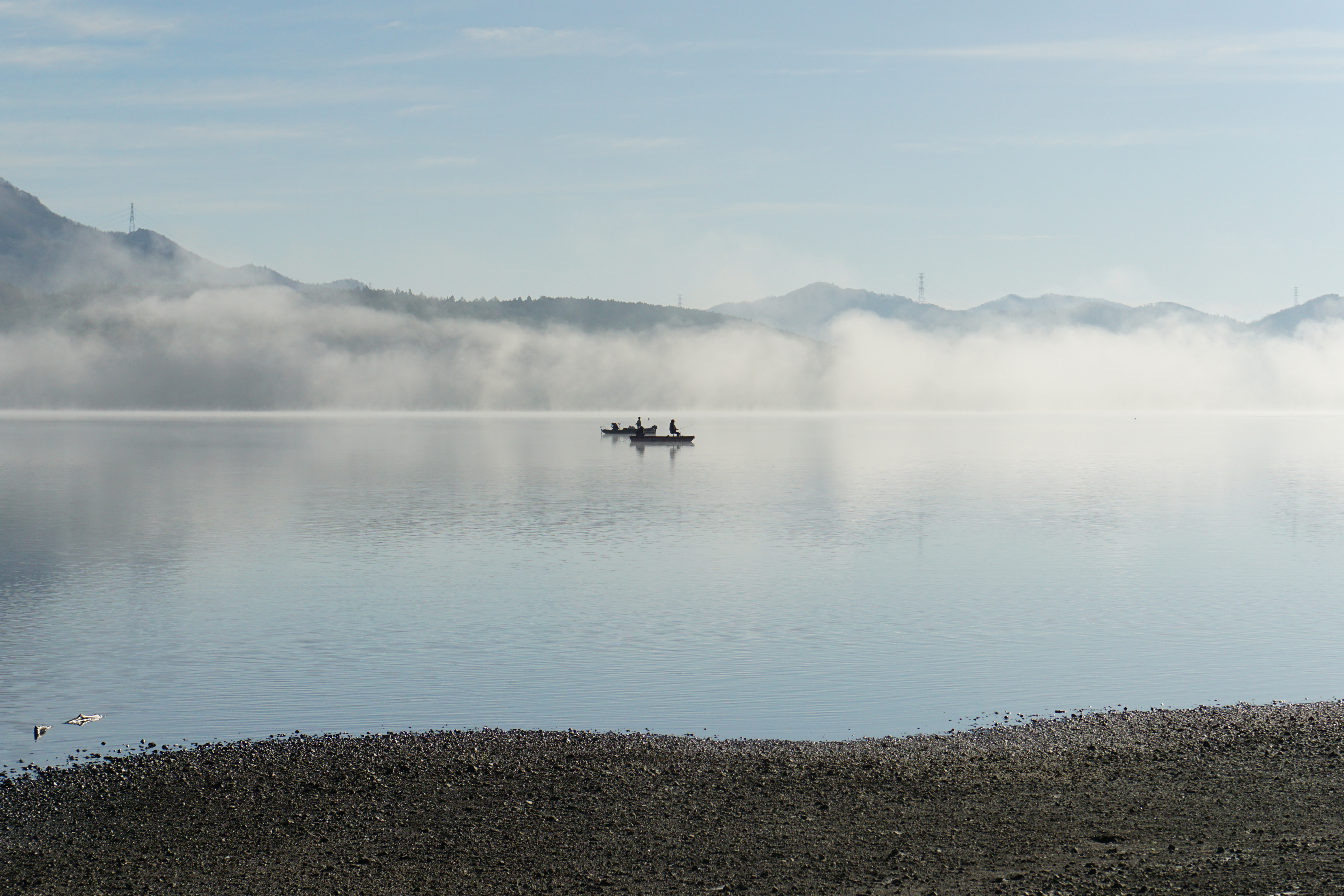 At Lake Yamanaka in Yamanakako, Yamanashi prefecture, Japan